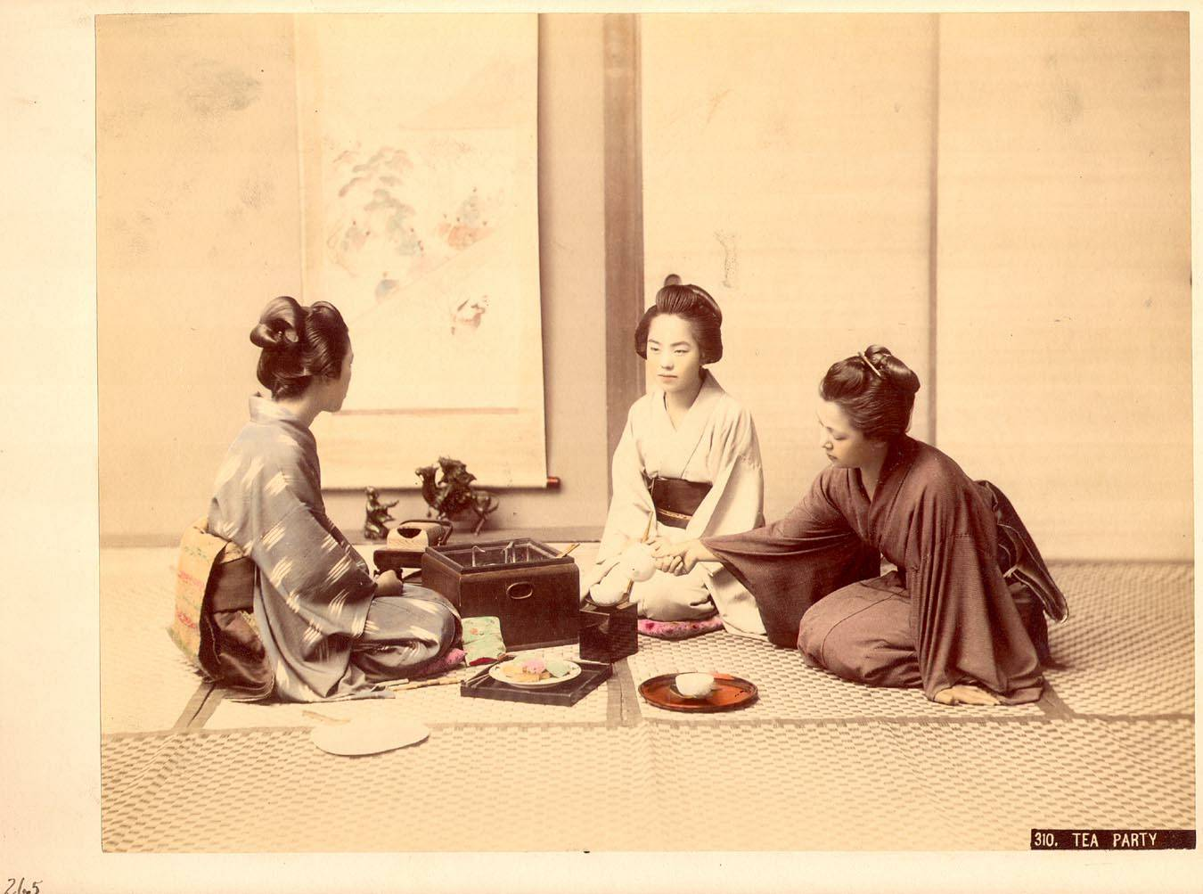 Albumen - Hand Colored